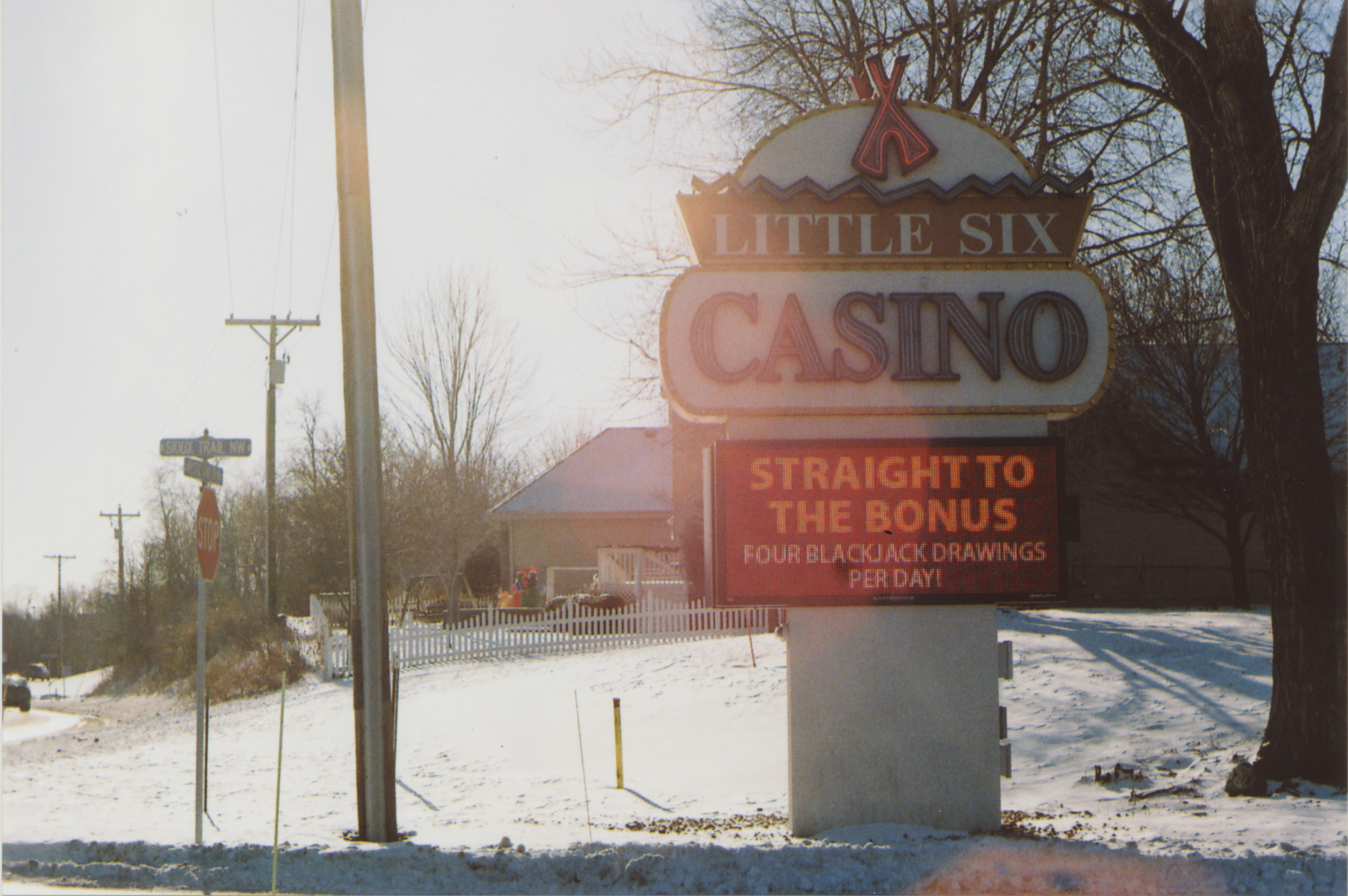 Little Six Casino in Prior Lake, Minnesota